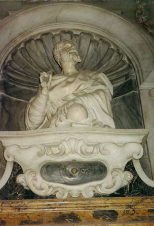 Monument to Galileo Galilei, inside Santa Croce church, in Florence, Italy. Photo by User:Infrogmation, 1993.